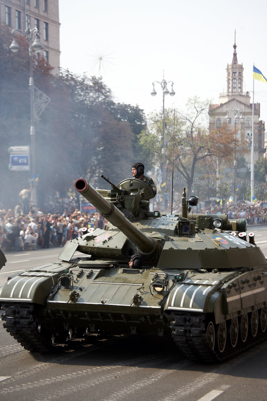 Ukrainian T-64BM-tank during the Independence Day parade in Kiev, Ukraine in 2008.